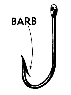 Line art drawing of a fish hook and its barb.